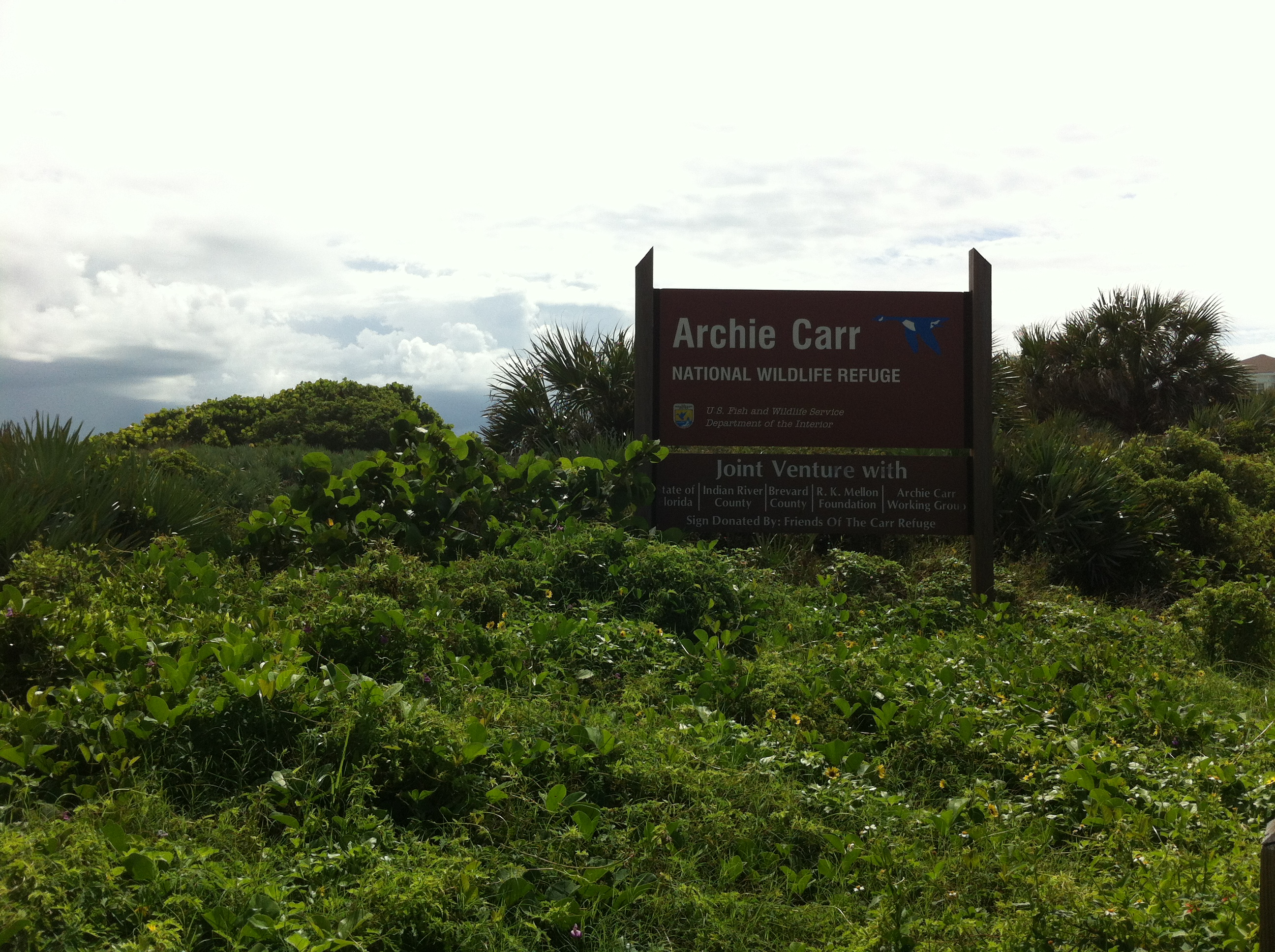 Archie Carr National Wildlife Refuge near intersection of Florida State Highway A1A and Sabal Ridge Lane in Melbourne Beach, Florida.